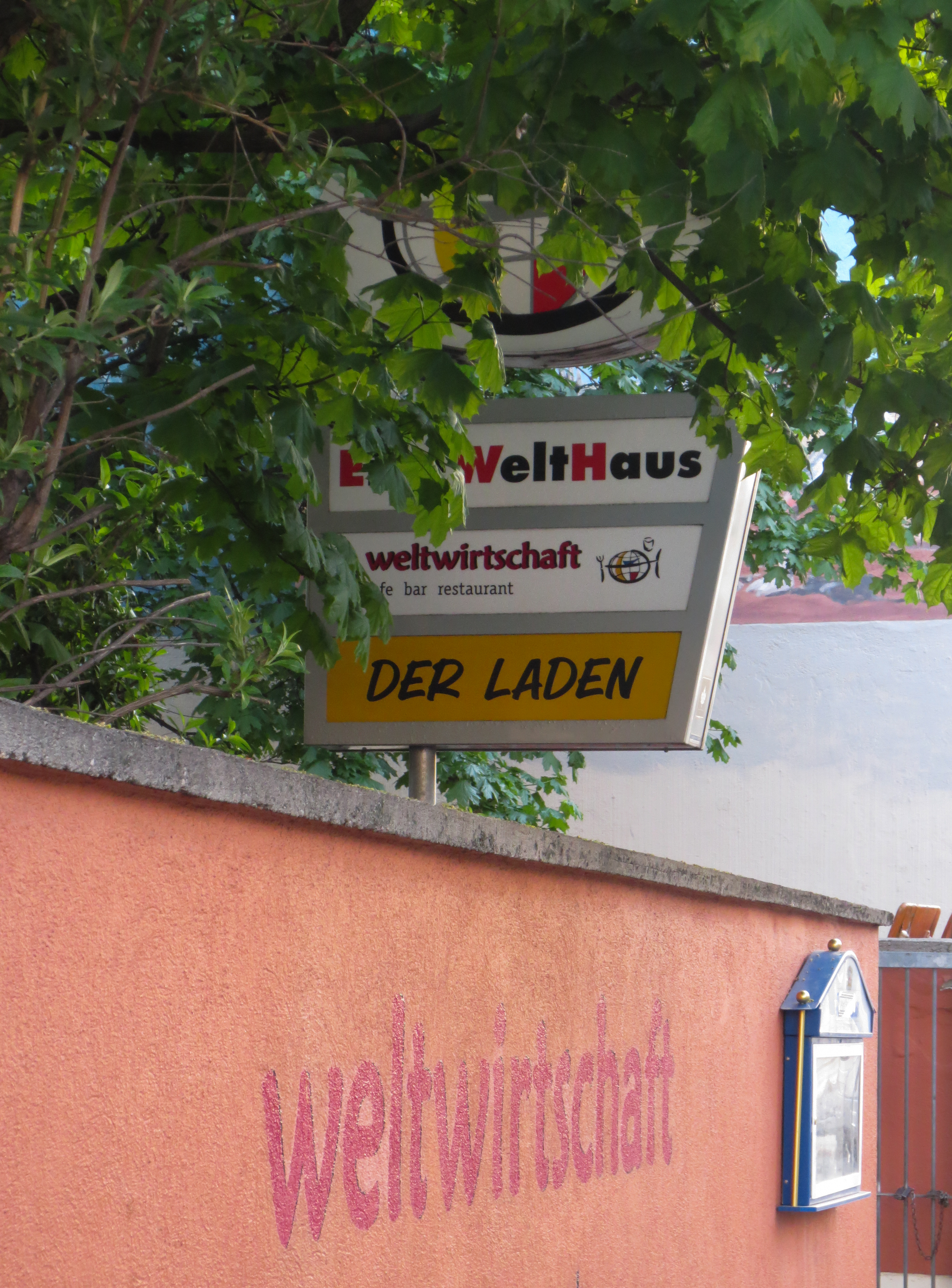 The Eine Welt Haus in Munich at Ludwigsvorstadt. The Entrance and Plates.